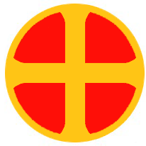 Logo of Norwegian Nazi Party Nasjonal Samling 1933-1945